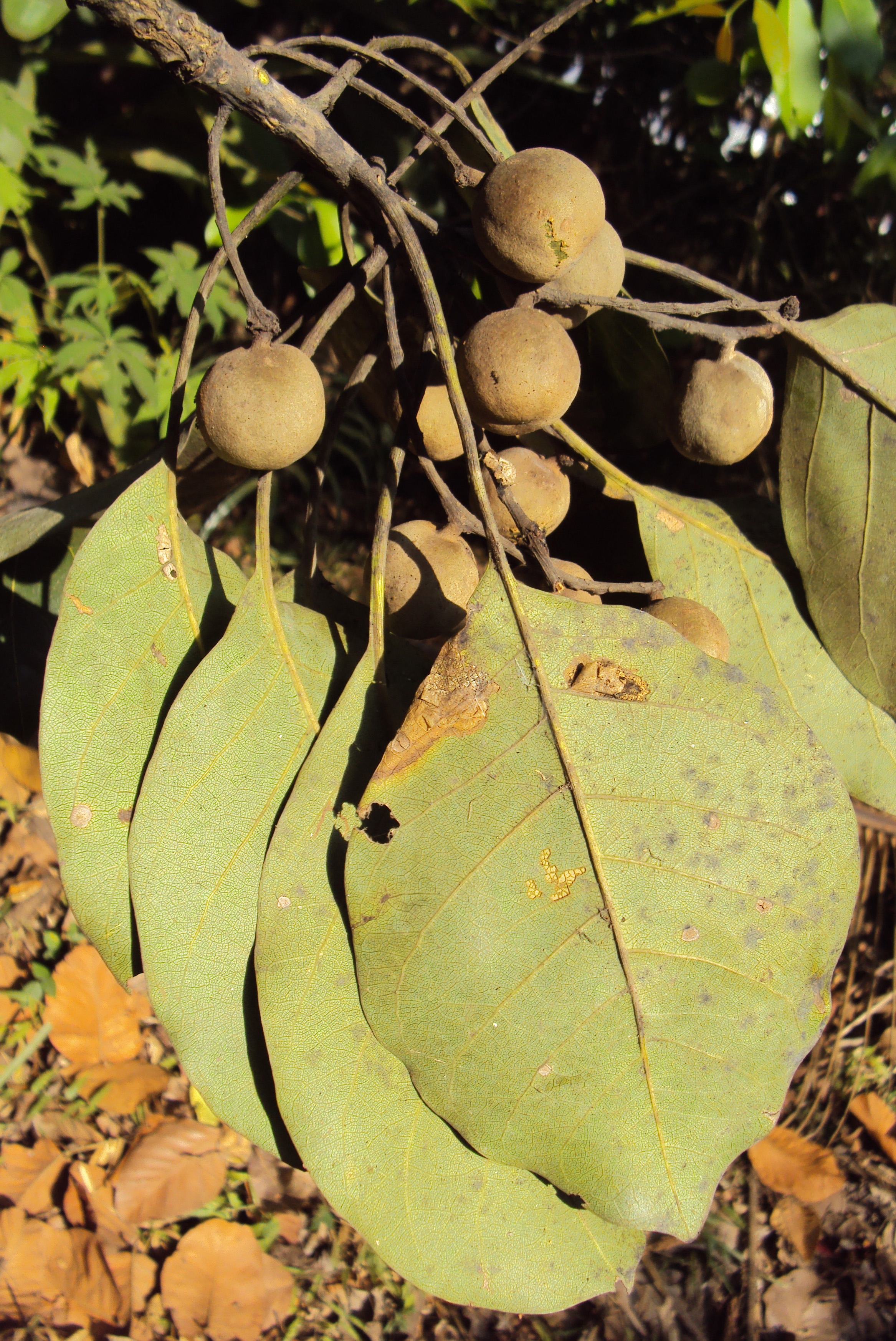 Terminalia bellerica